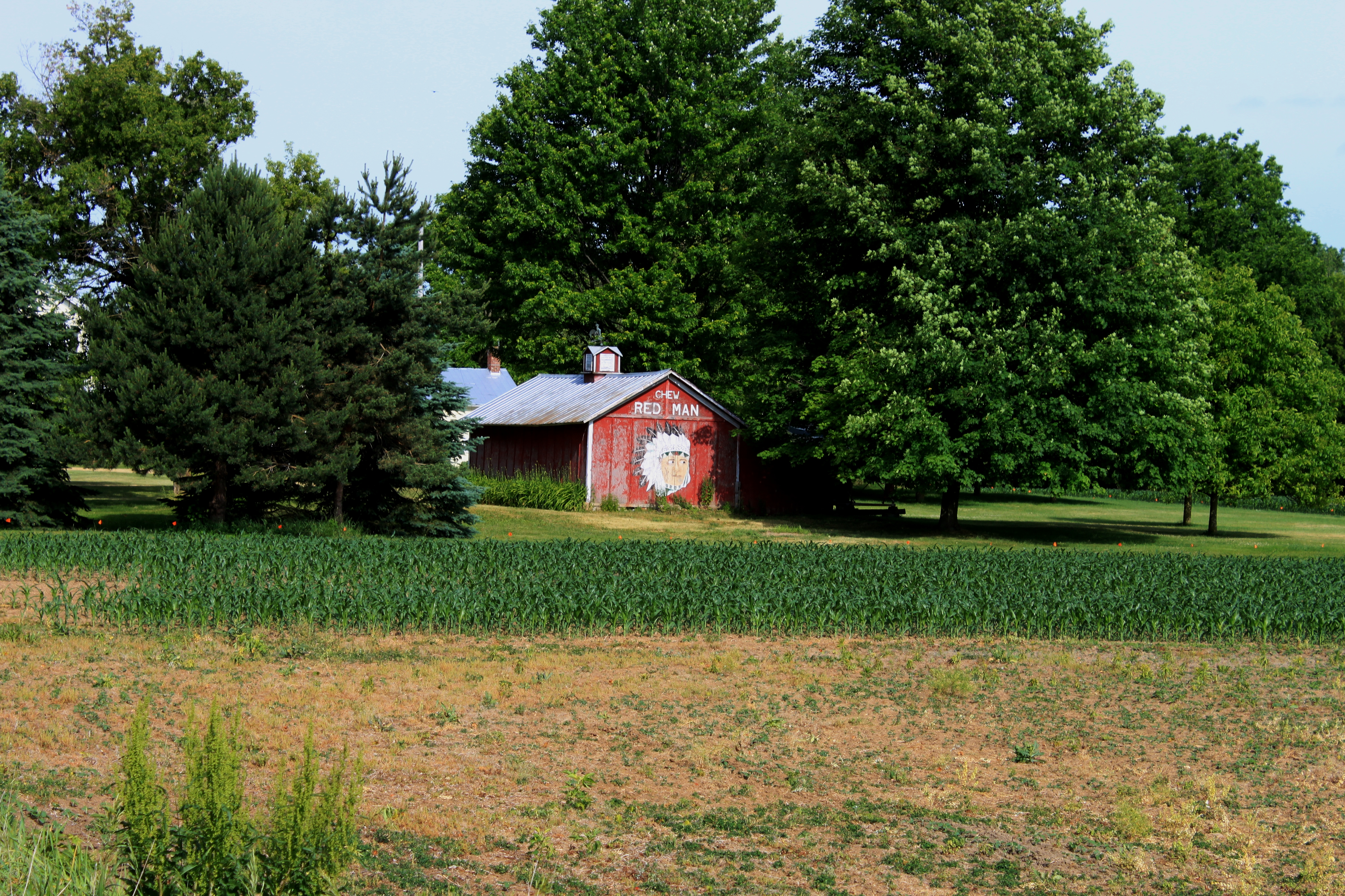 Barn painted with a Red Man Chewing Tobacco advertisement, 9470 Clinton Macon Road, Macon Township, Michigan.